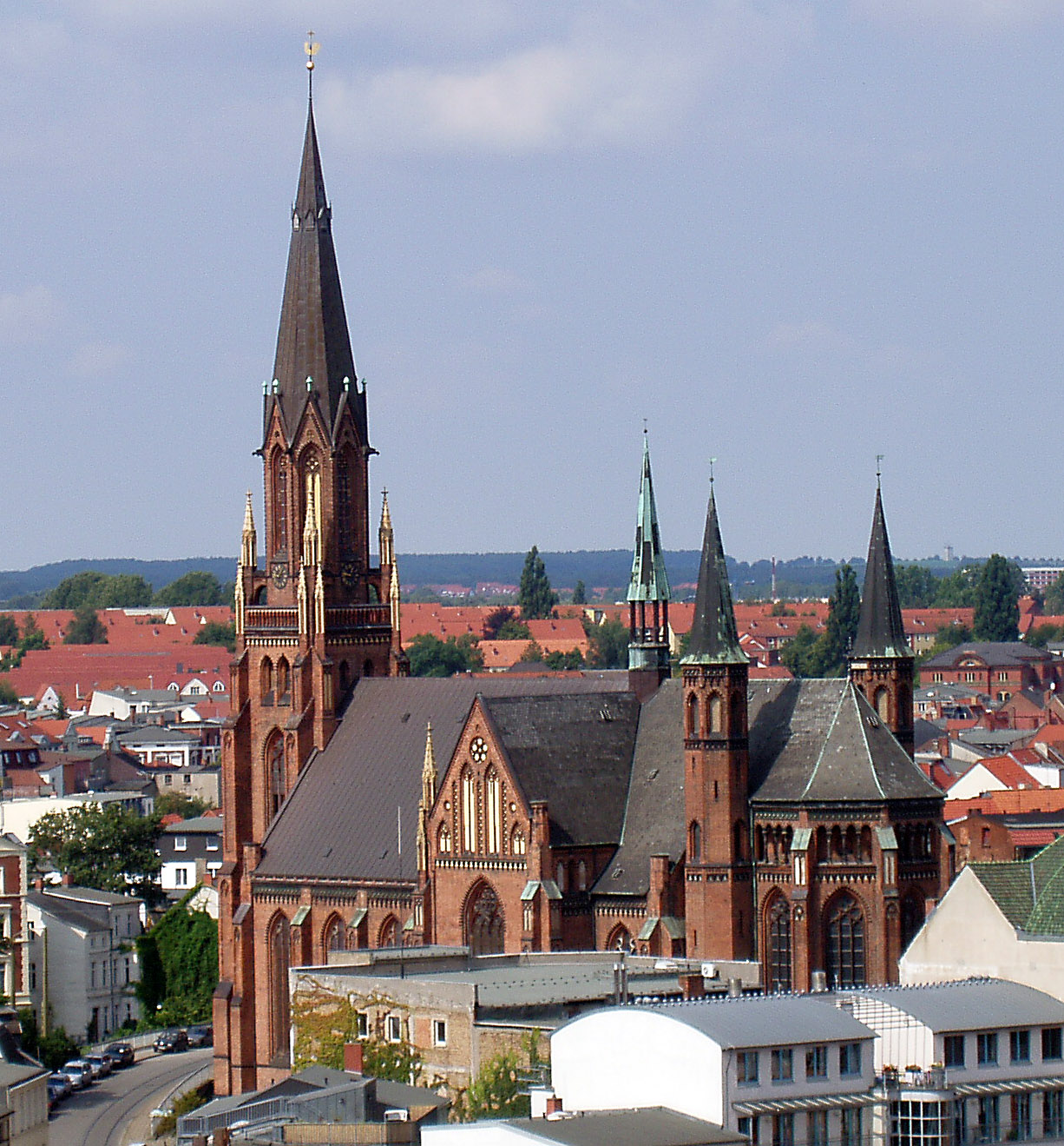 Paulskirche, view from cathedral, Schwerin (Germany)